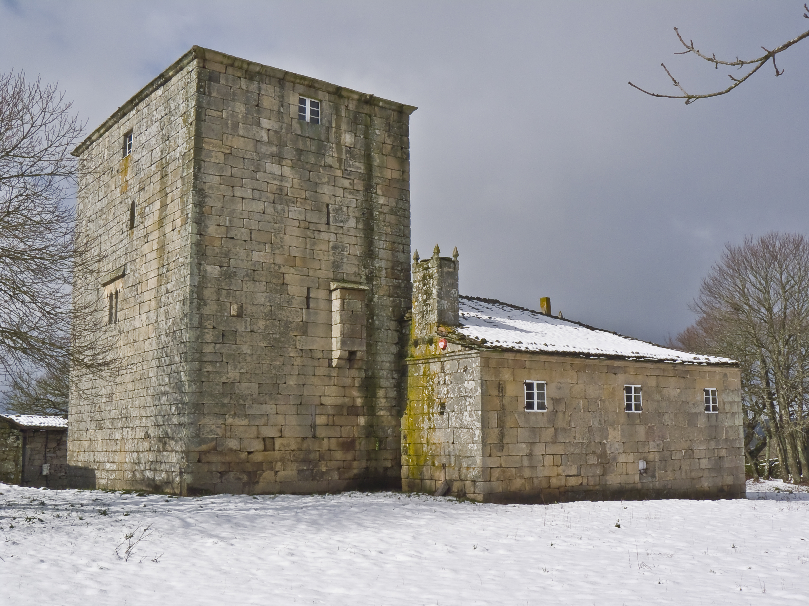 Tower and palace of San Miguel das Penas - Monterroso - Lugo - Galicia - Spain